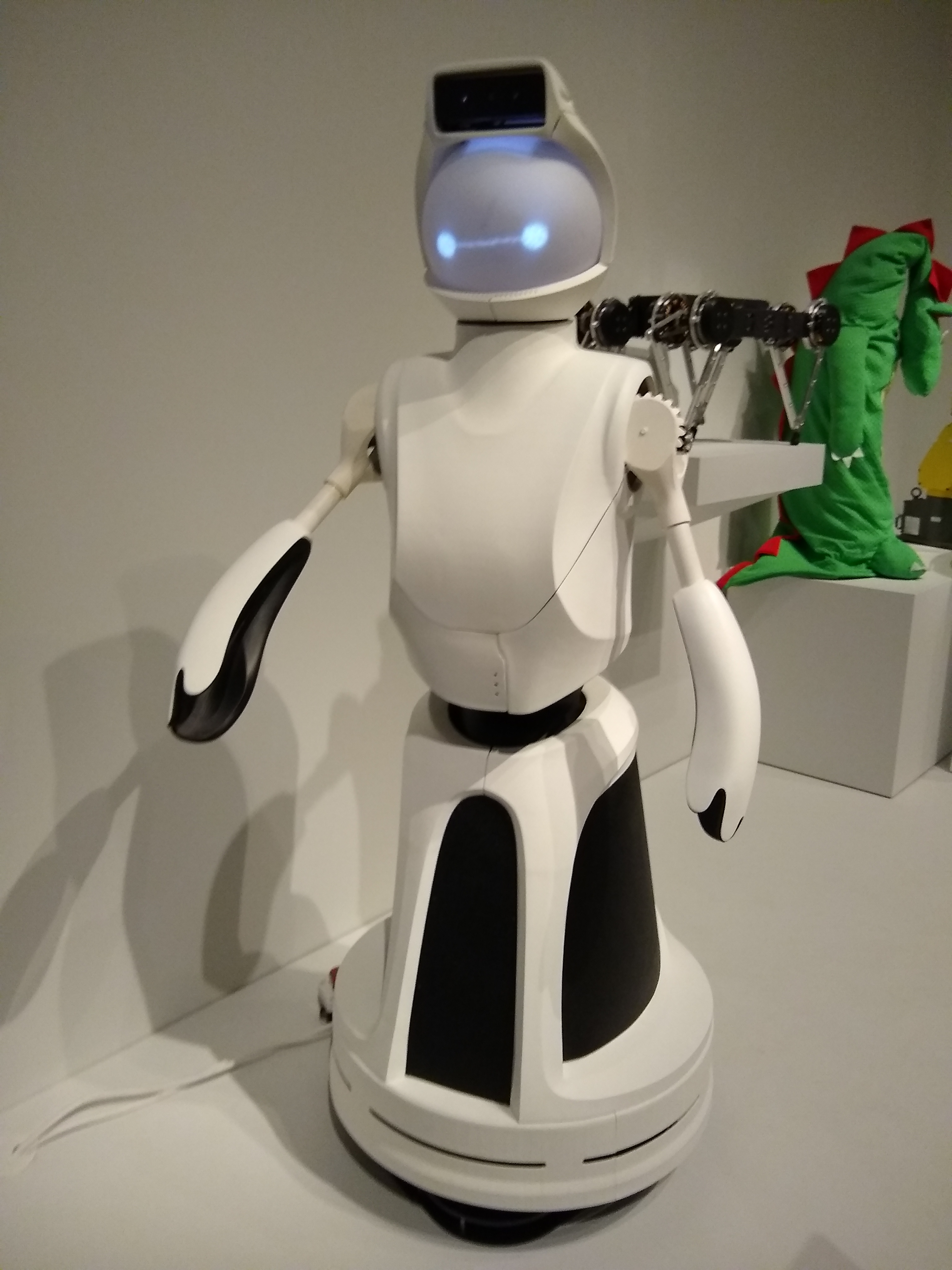 Quori socially interactive robot platform, designed by Mark Yim, Mariana Ibañez, and Simon Kim of Immersive Kinematics Lab. Displayed as part of the exhibit "Designs for Different Futures" at the Philadelphia Museum of Art 2019-2020. Quori is intended as a basis for the study of human-robot interaction (HRI) research. It stands about five feet tall, and has a customizable digital face, moveable torso and arms. The motors and wheelsc in the omnidirectional mobile base are protected by a pyramid-shaped shell. Quori can respond to human movement, turning, waving and bowing in response to people near it.